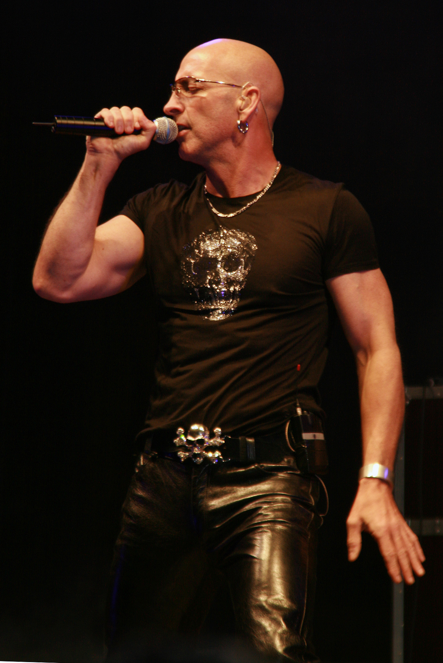 Richard Fairbrass of Right Said Fred; performance at the Regenbogenparade (gay pride parade) 2008 in Vienna